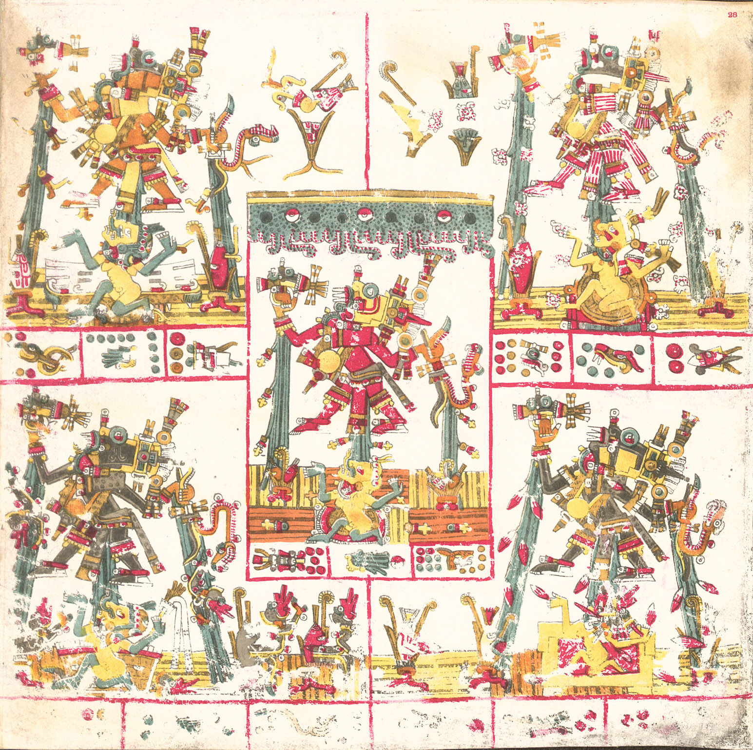 Tlaloque, described in the Codex Borgia.